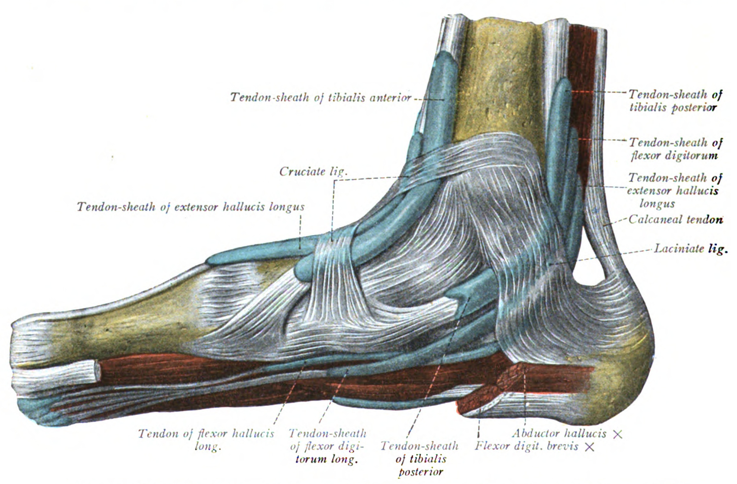 An anatomical illustration from the 1909 edition of Sobotta's Atlas and Text-book of Human Anatomy with English terminology.